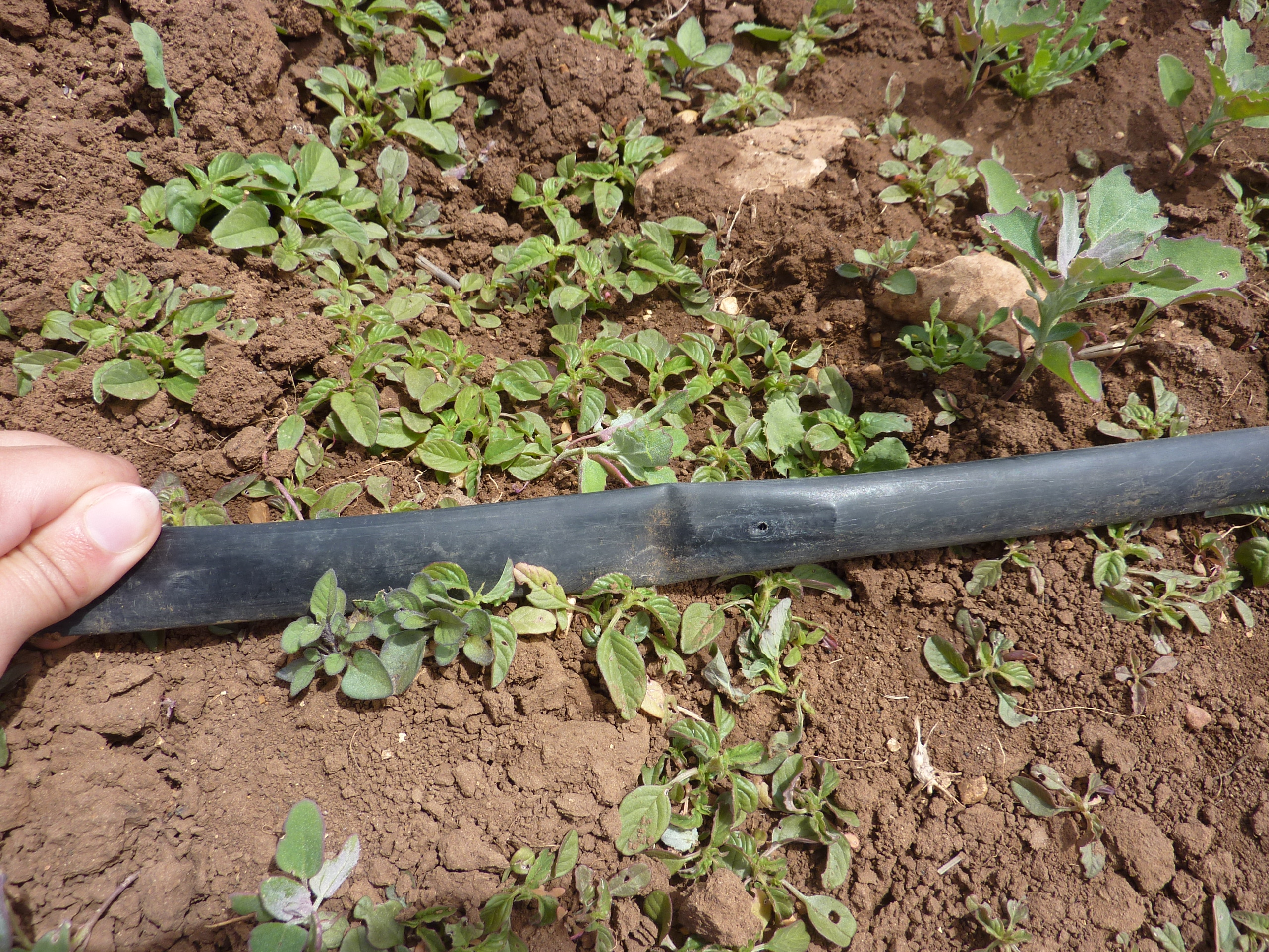 Photo taken in June 2013 in the village Dayet Ifrah, near Ifrana, Morocco by Lydia Herrmann For further information about the pilote project of the Programme AGIRE (GIZ) in the village of Dayet Ifrah